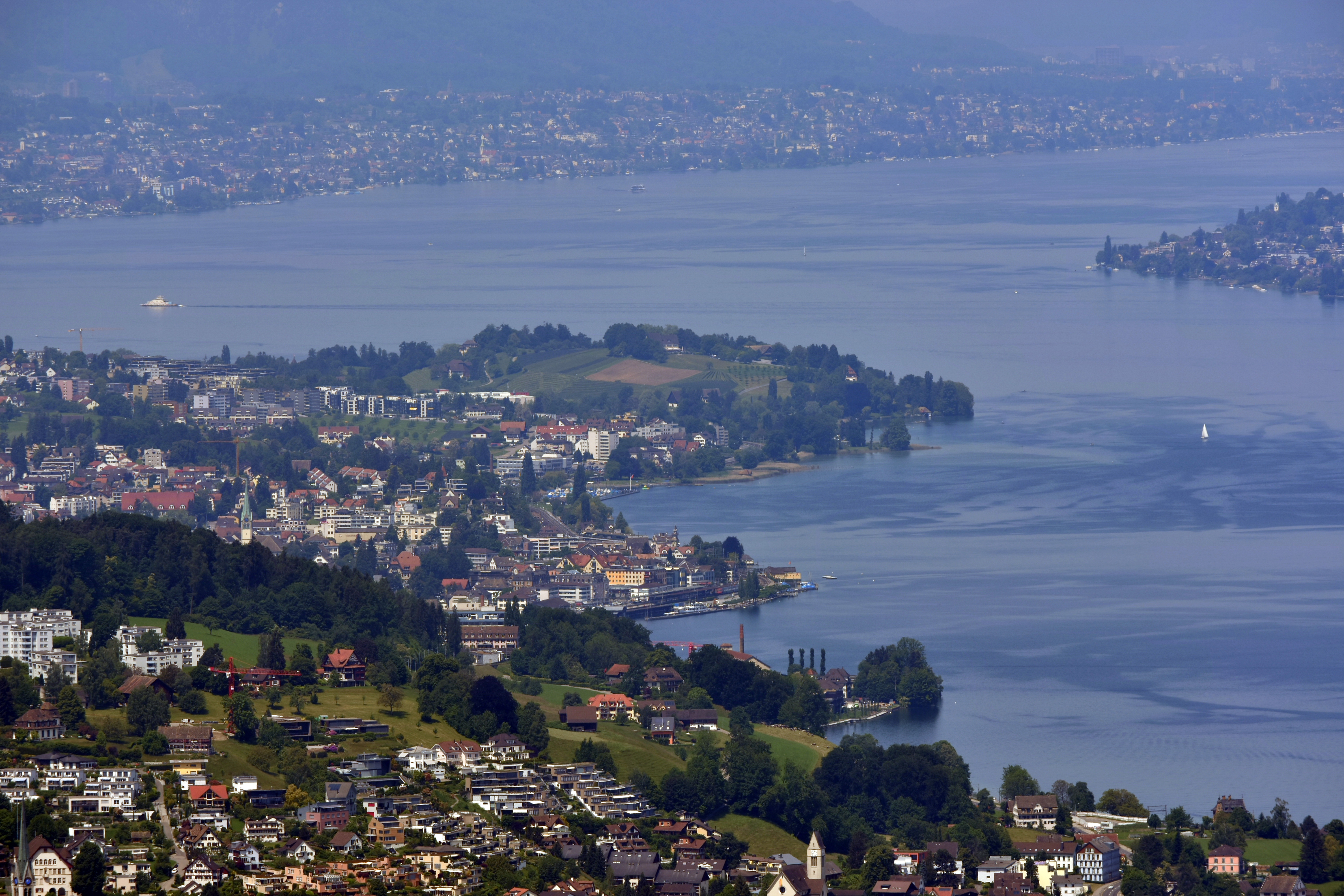 Zürichsee towards Zürich : Au peninsula and Wädenswil, as seen from Feusisberg towards Etzel mountain.